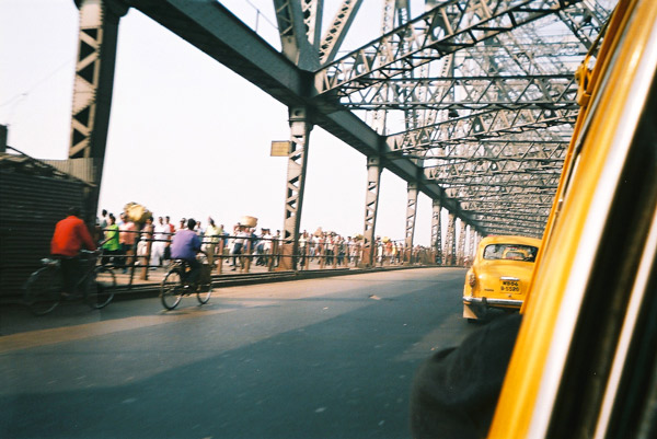 The Howrah Bridge links Calcutta to Howrah, which is on the other side of River Hooghly. The steel bridge is one of the man-made wonders of India.